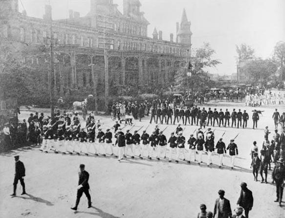 Brunswick, April 1903. Members of the Brunswick Riflemen followed by the Brunswick Naval Reserves march in the parade on Confederate Memorial Day. The Oglethorpe Hotel is seen at the left.